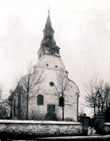 Portestant Church of Otzenrath from 1706